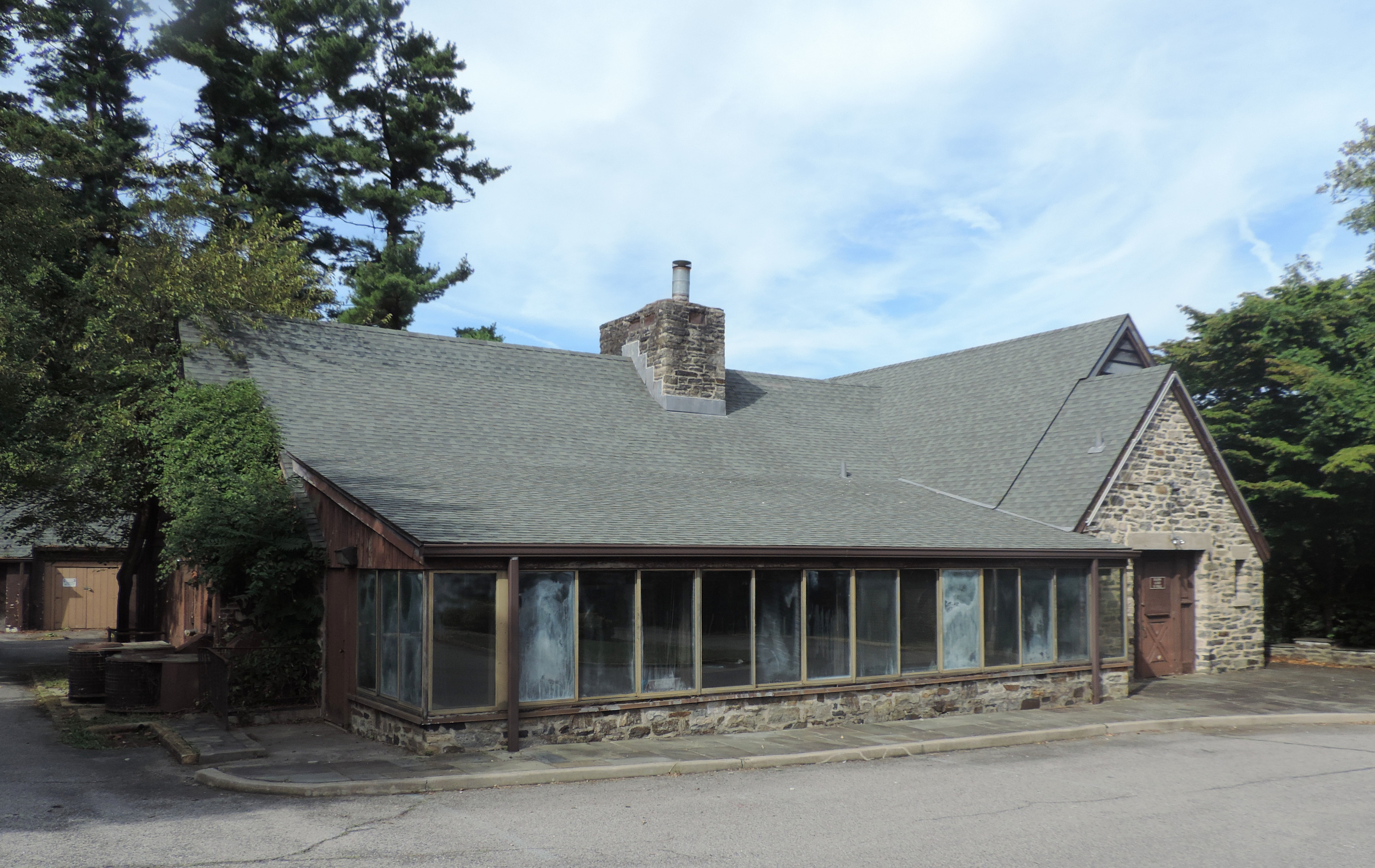 Looking northeast at former restaurant between Woodlands Lake and Sawmill River Parkway on a mostly sunny afternoon.